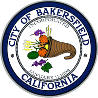 The official city seal of Bakersfield, California.